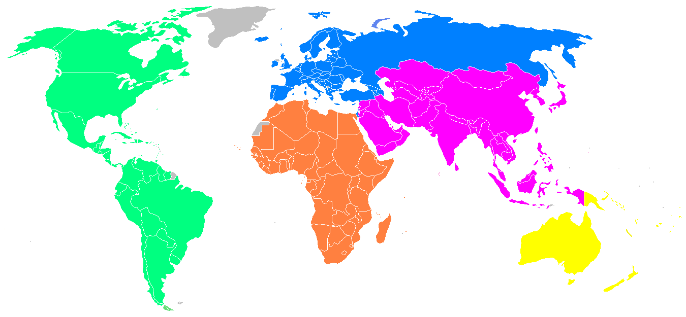 World map showing the different FIBA commissions. Corrected :Image:World Map FIBA.png where Kazakkstan was colored FIBA Europe blue when it is a FIBA Asia member. (Admins can transfer this to Commons to replace Image:World Map FIBA.png.)